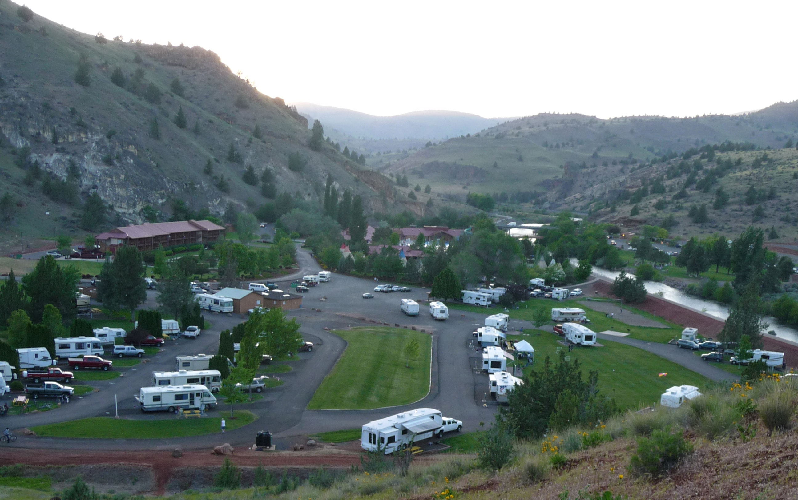 View of Kahneeta Hot Springs Resort and Camp ground